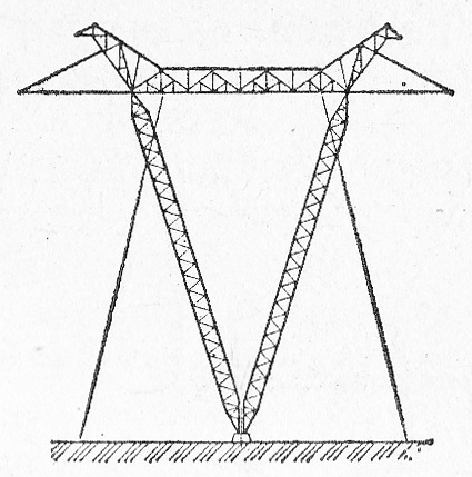 1150 kV powerline support pylon